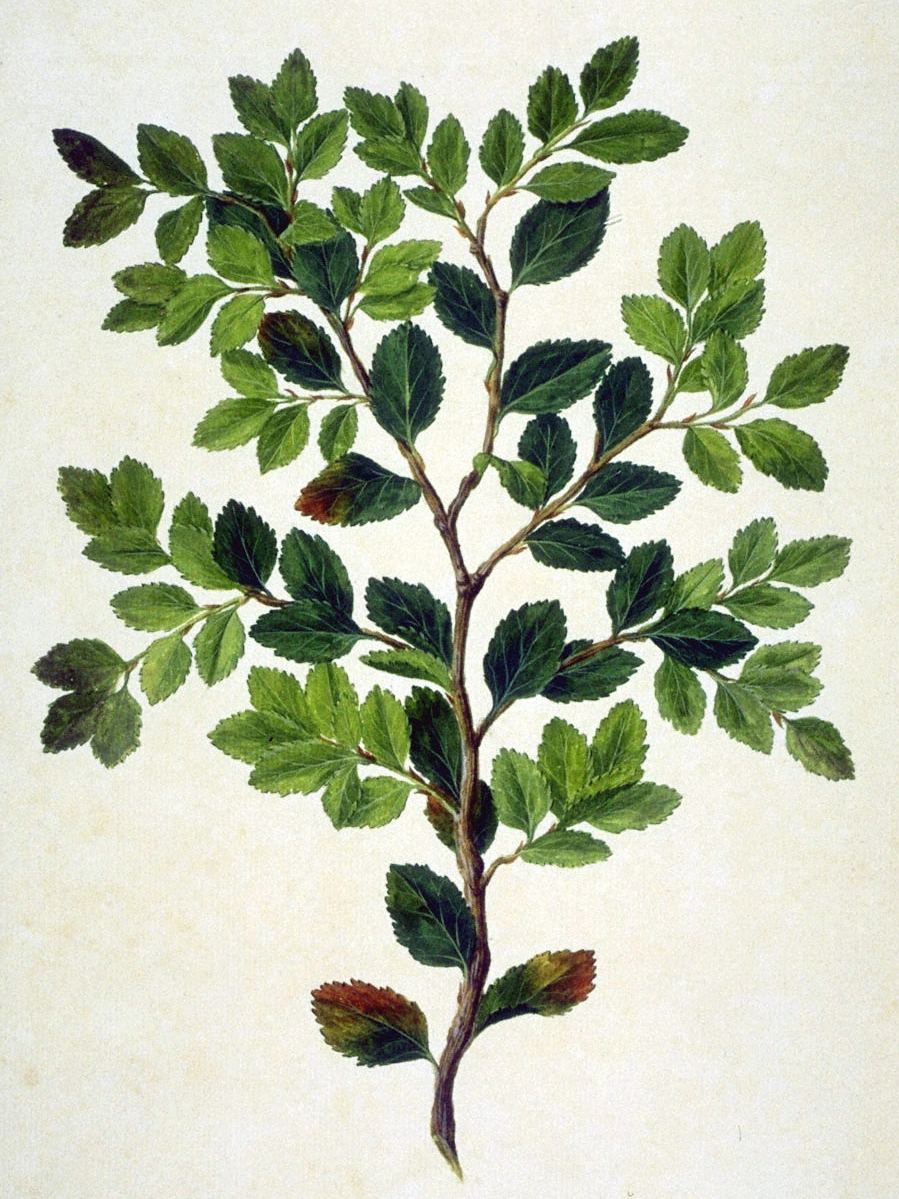 Species:Nothofagus betuloides, drawing from specimens collected in Tierra Del Fuego, January 1769